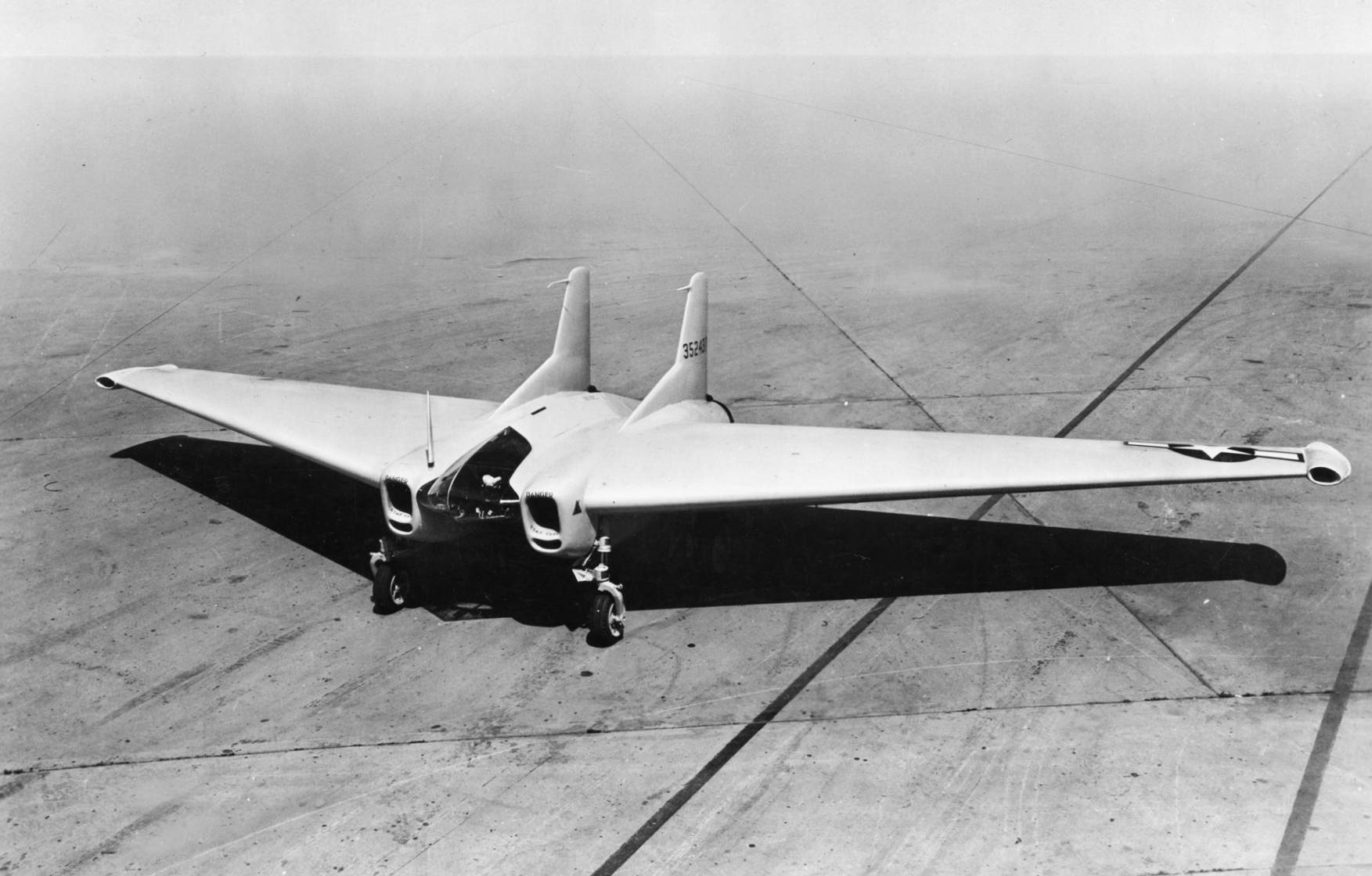 The Northrop XP-79B "Flying Ram" s/n 43-52437, aerial 3/4 side view.